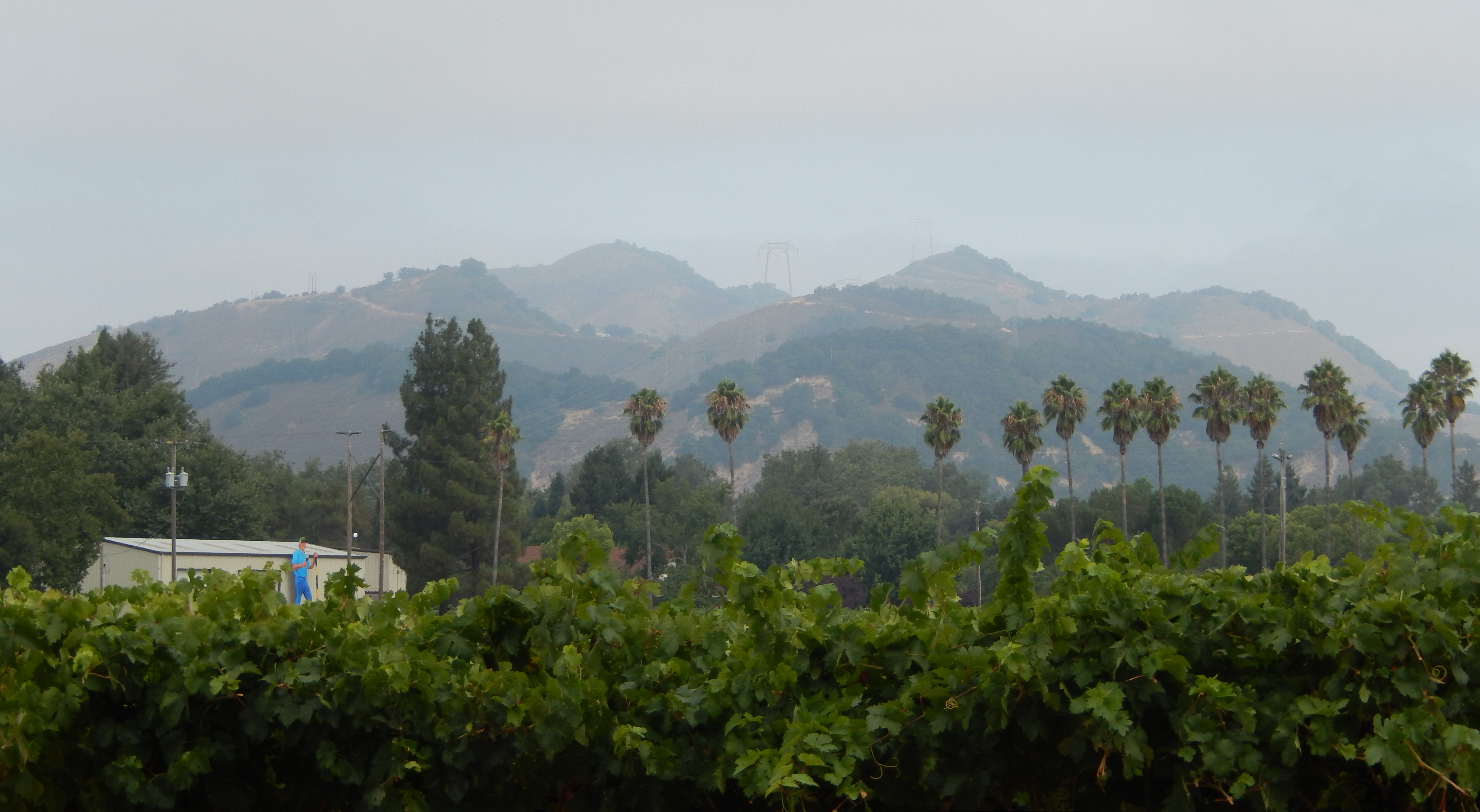 View of Twin Peaks (Santa Clara County, California) near intersection of Watsonville and Day roads.